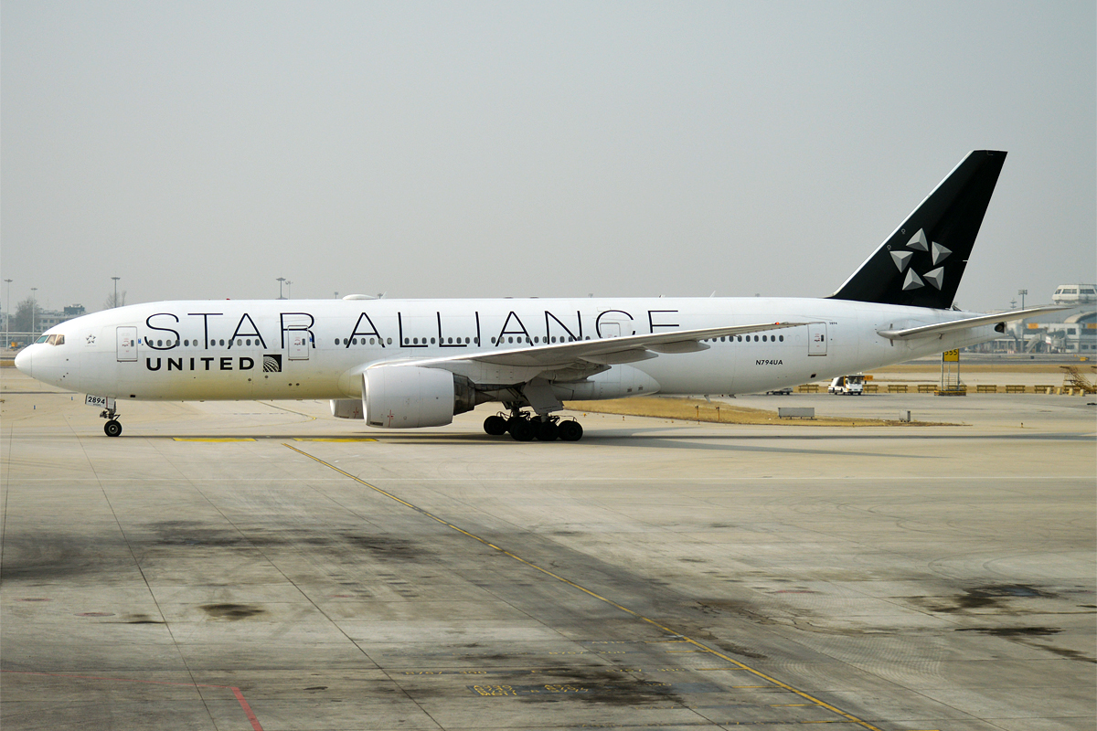 United Airlines, N794UA, Boeing 777-222 ER